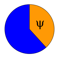 Golden angle